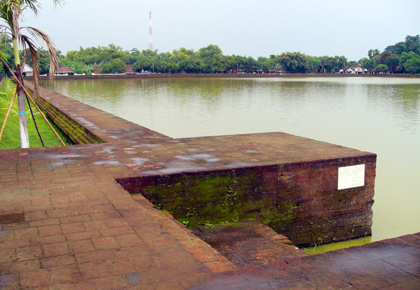 Segaran pool, 375 m x 175 m rectangular water reservoir dated from 14th century Majapahit era, Trowulan Archaeological Park, East java, Indonesia.